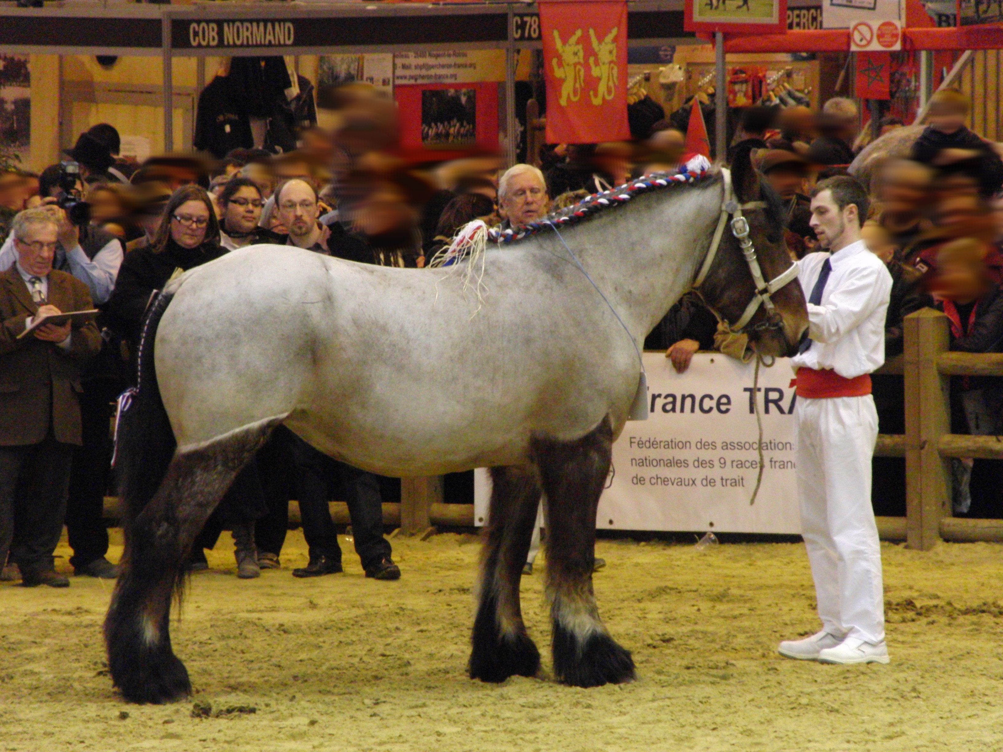 Trait du Nord mare during a show - Paris International Agricultural Show 2012, Paris, France